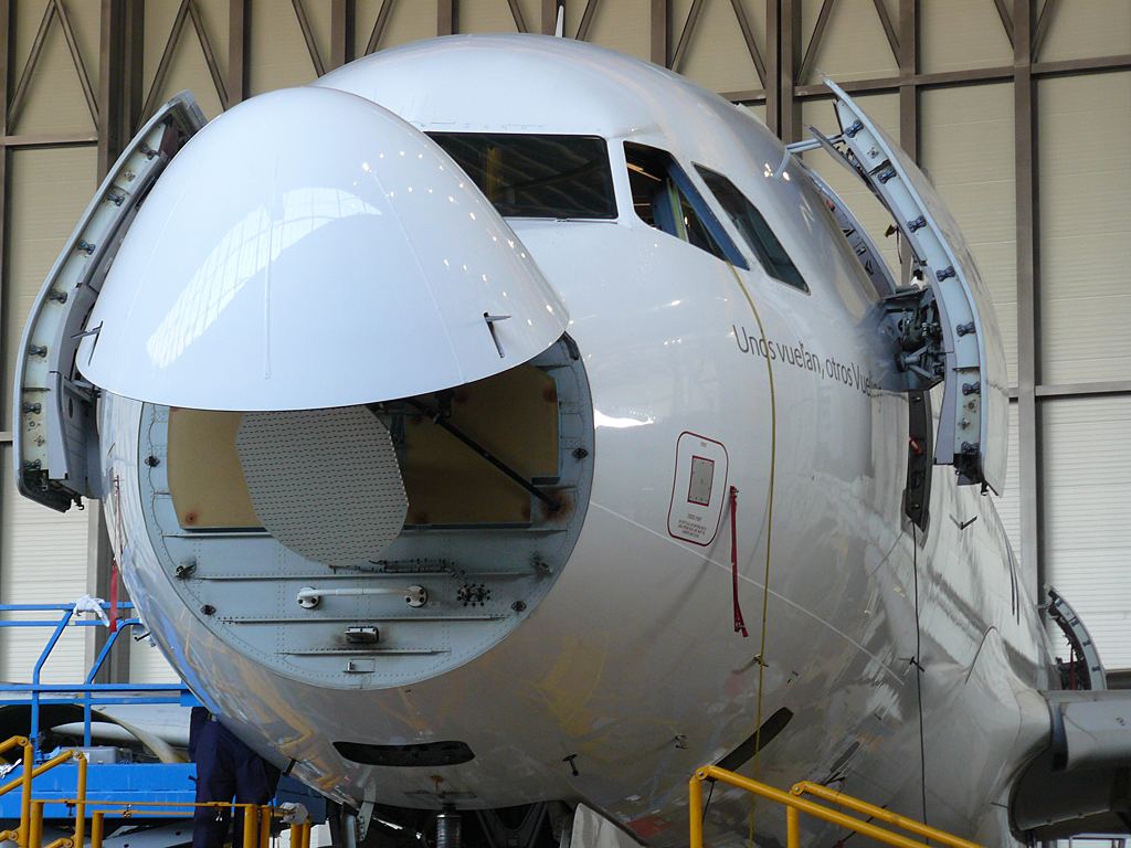 A view of the nose of an Airbus A320, seen with its radar dome open, while it sits at a C-Check inspection inside the new Iberia Maintenance Hangar at Barcelona Airport.